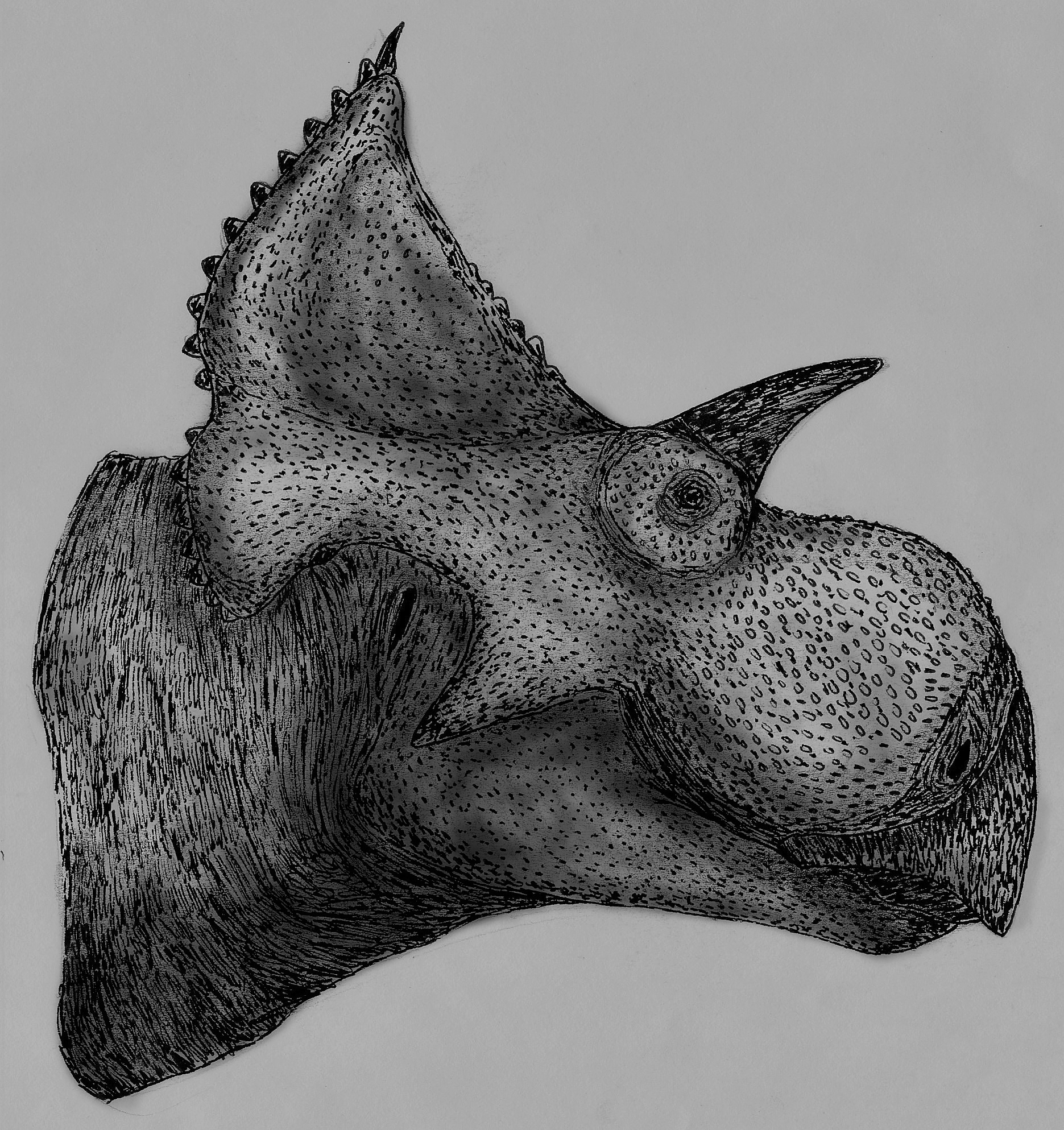 Representation in life of the Yehuecauhceratops mudei